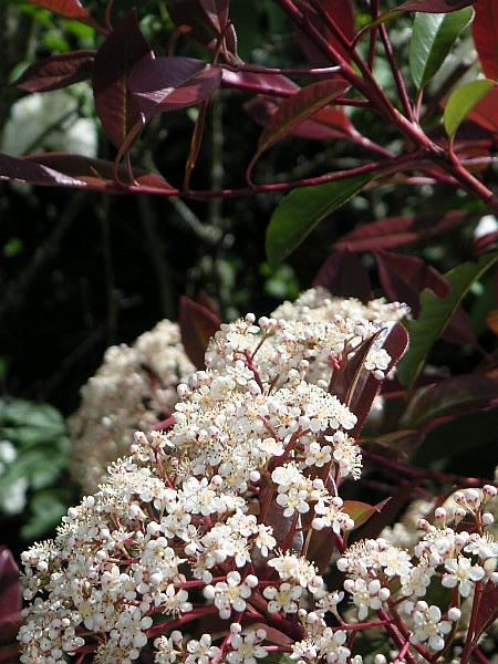 Photinia Red Robin